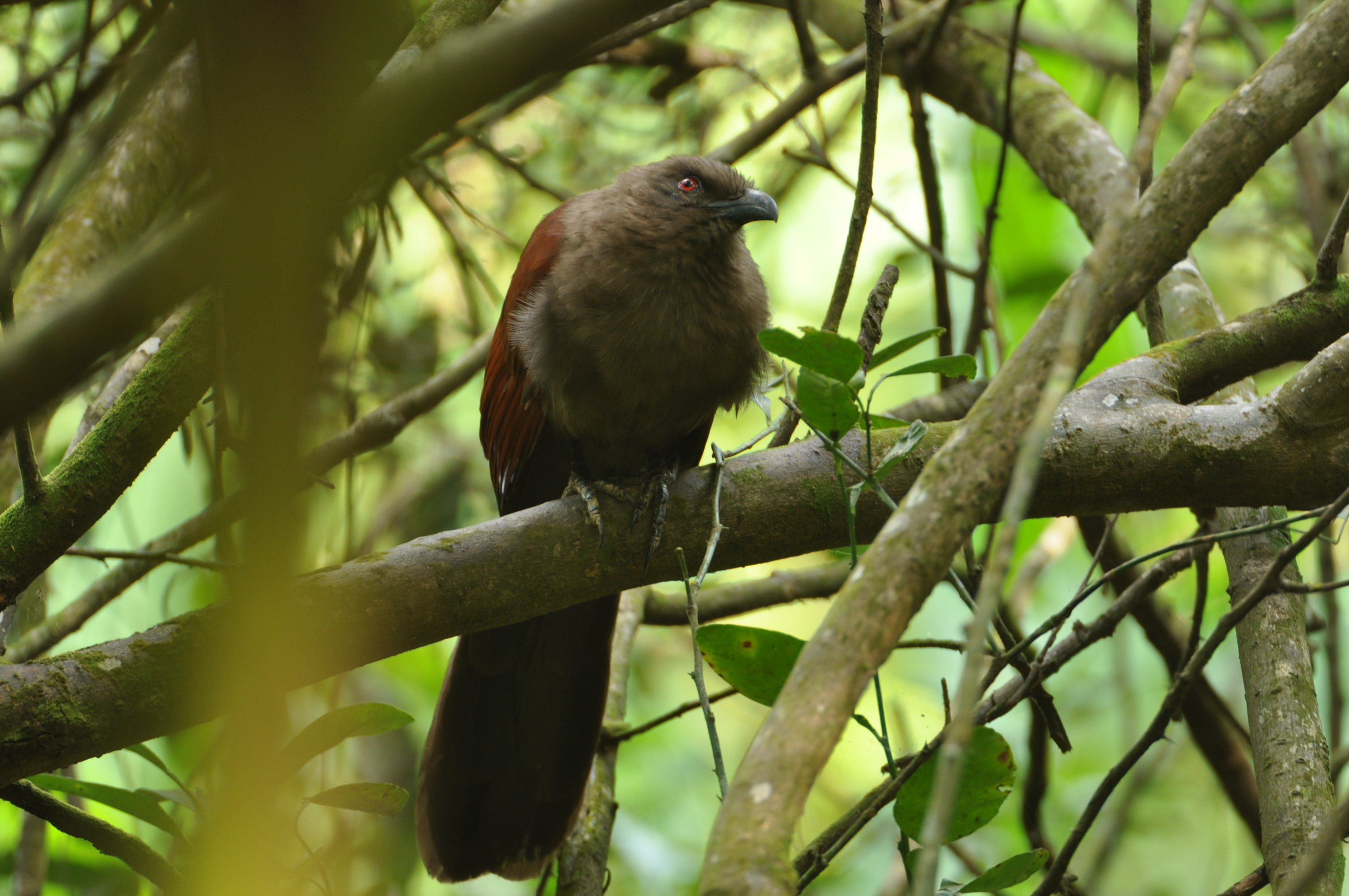 The Andaman or brown coucal (Centropus andamanensis)